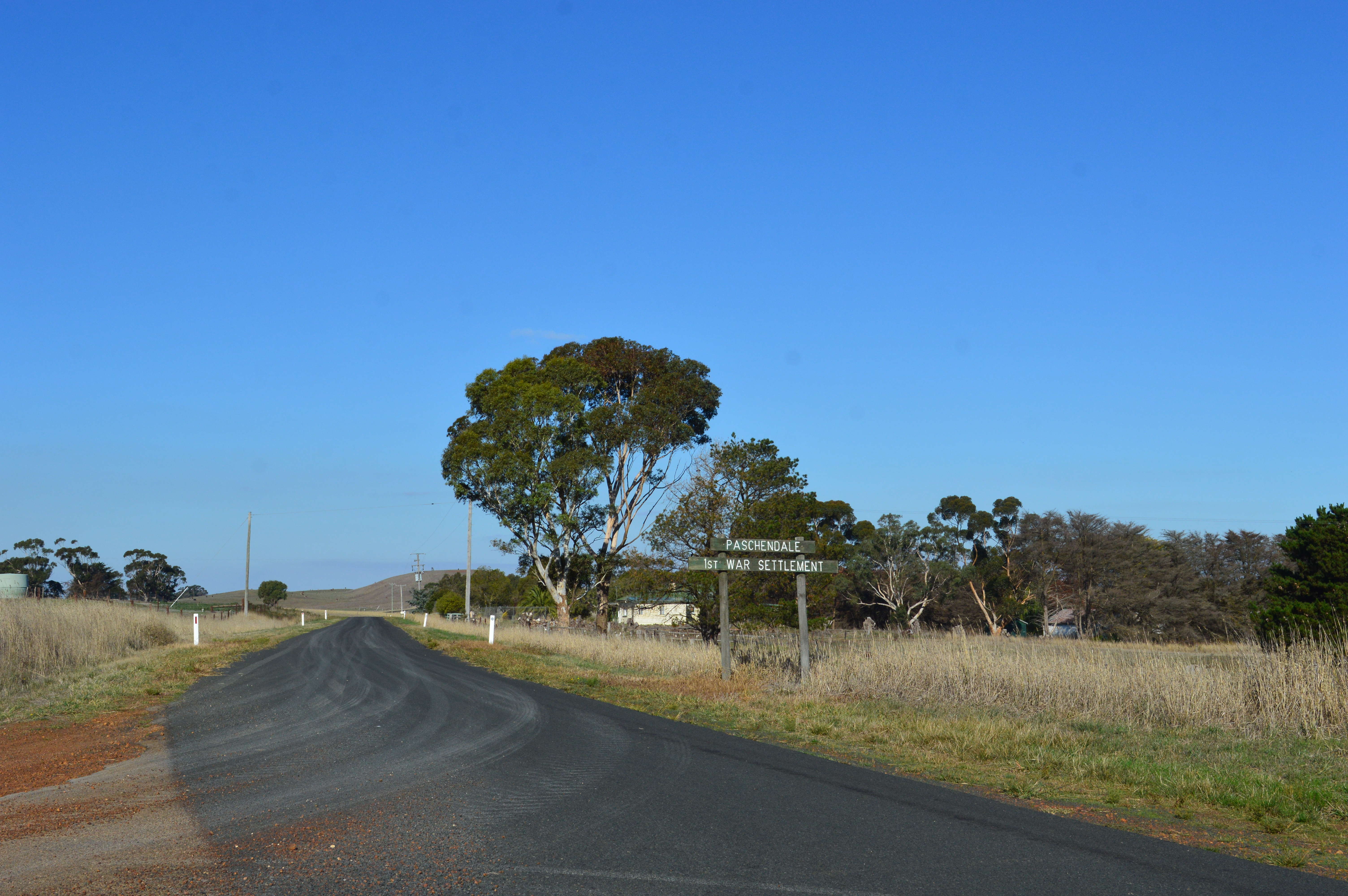 Town entry sign at Paschedale, Victoria